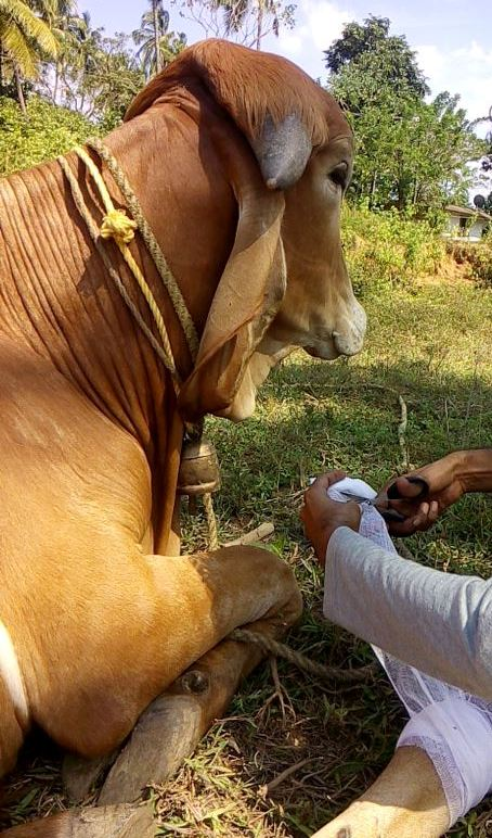 First aid after a rescue operation